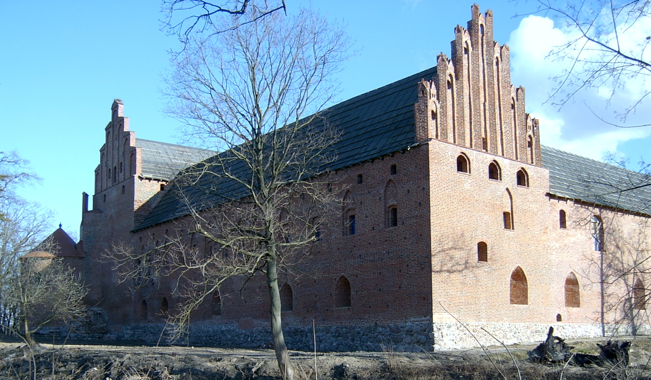 Castle in Barciany in Poland